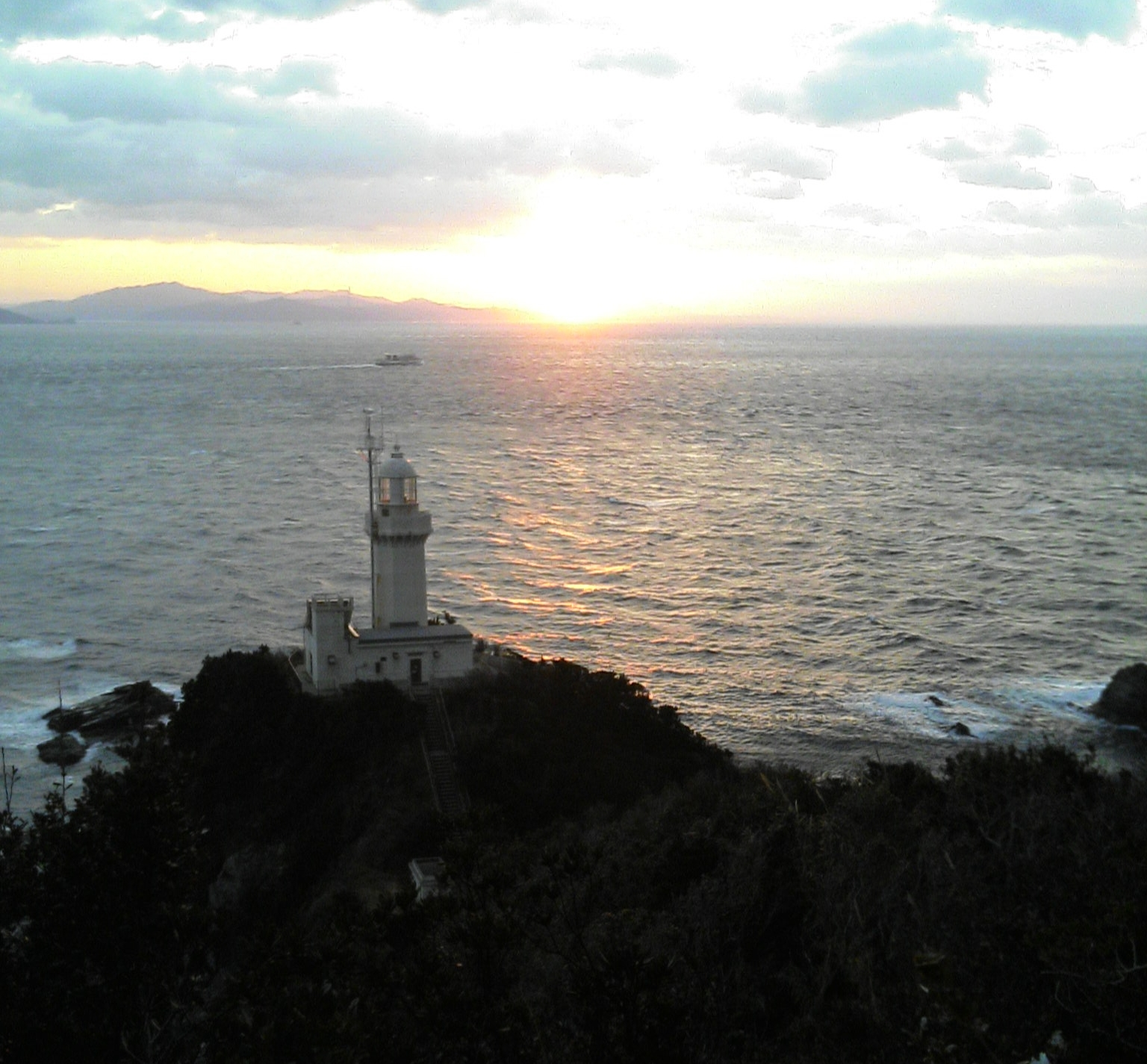 The lighthouse standing at the tip of the Sadamisaki Peninsula (Wikipedia:Ikata, Ehime)